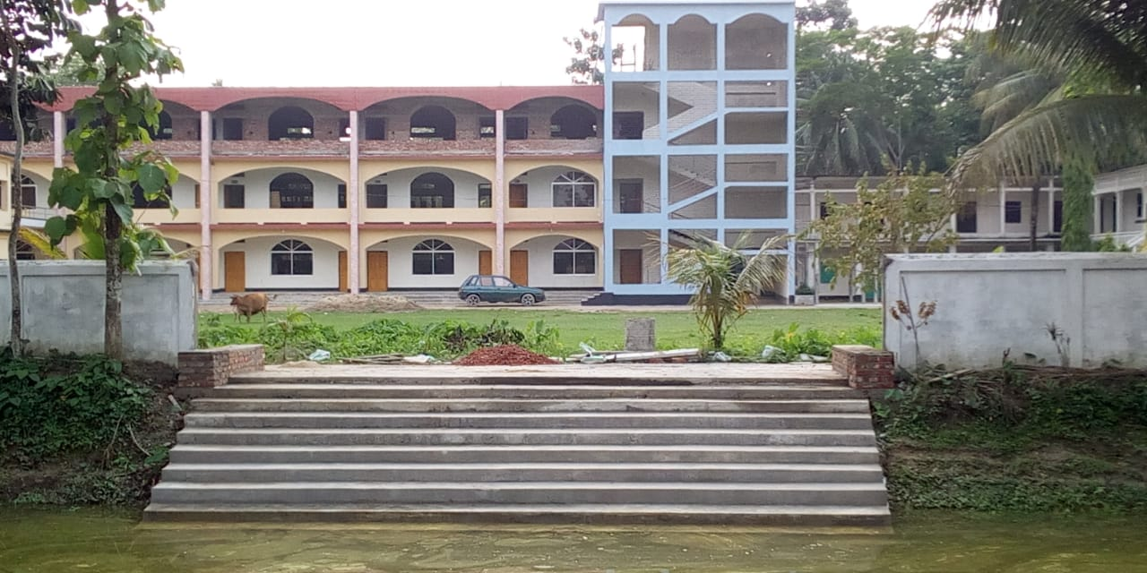 A photograph of newly built buinding of Satpur Kamil Madrasah